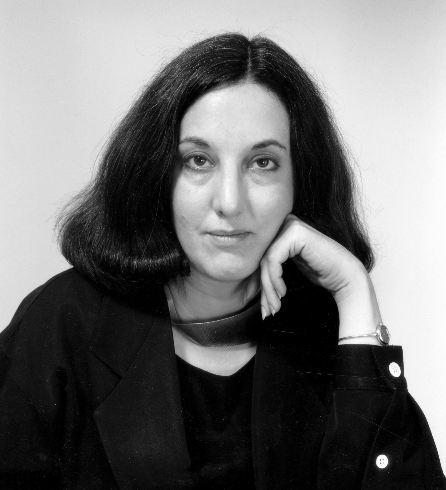 Anna R. Cohn, project director of Smithsonian Institution Traveling Exhibition Service (SITES). Smithsonian Institution Archives, Created by Springuel, Myriam A, "Anna Cohn, SITES Director, Steps Down", 2002-32297, Retrieved on 2019-08-10